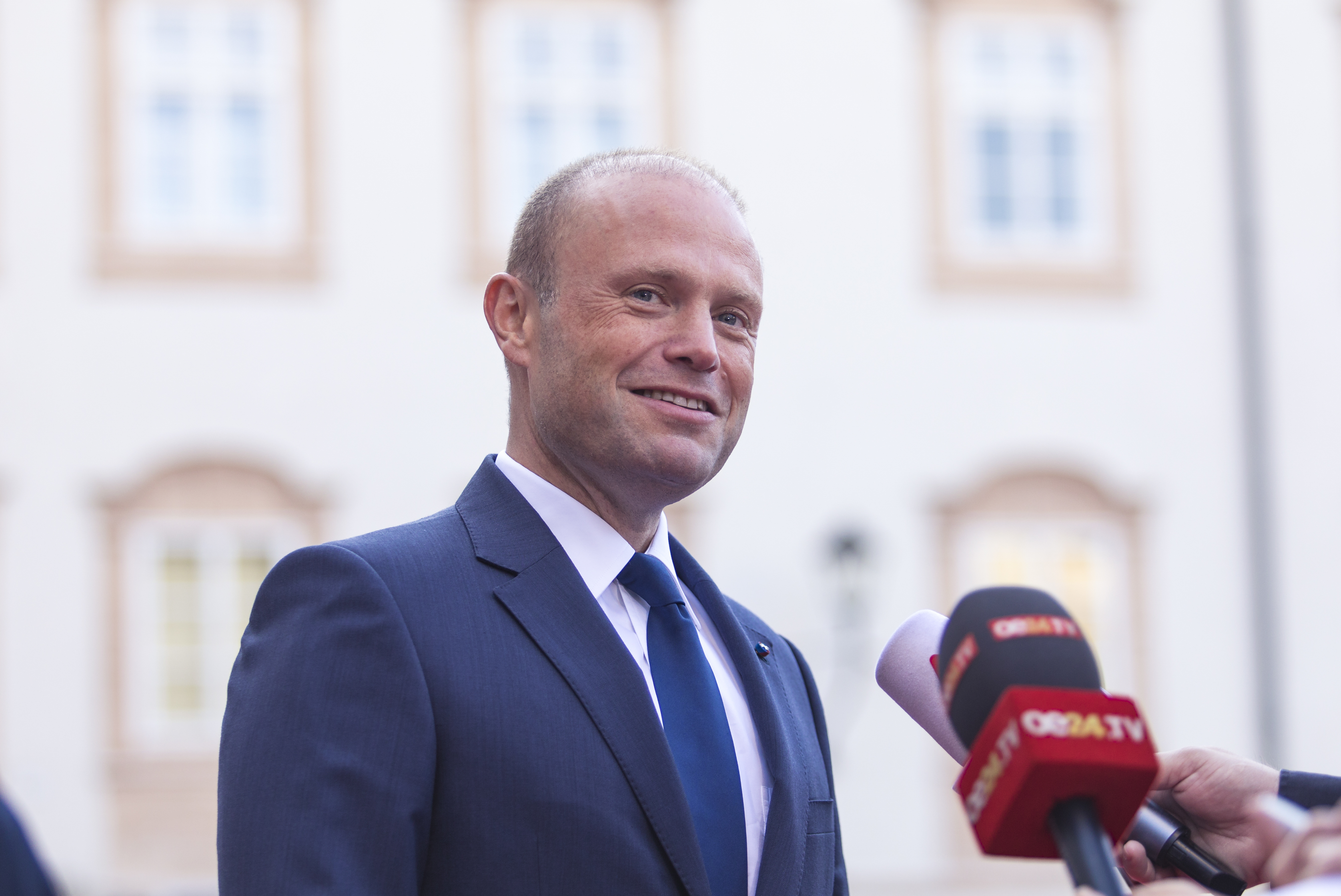 Template:Joseph Muscat